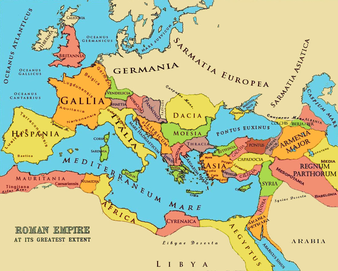 A referenced map of the Roman Empire at its greatest extent in the 2-3 cc. The borders of states and markings are referenced to a published historical atlas in public domain.